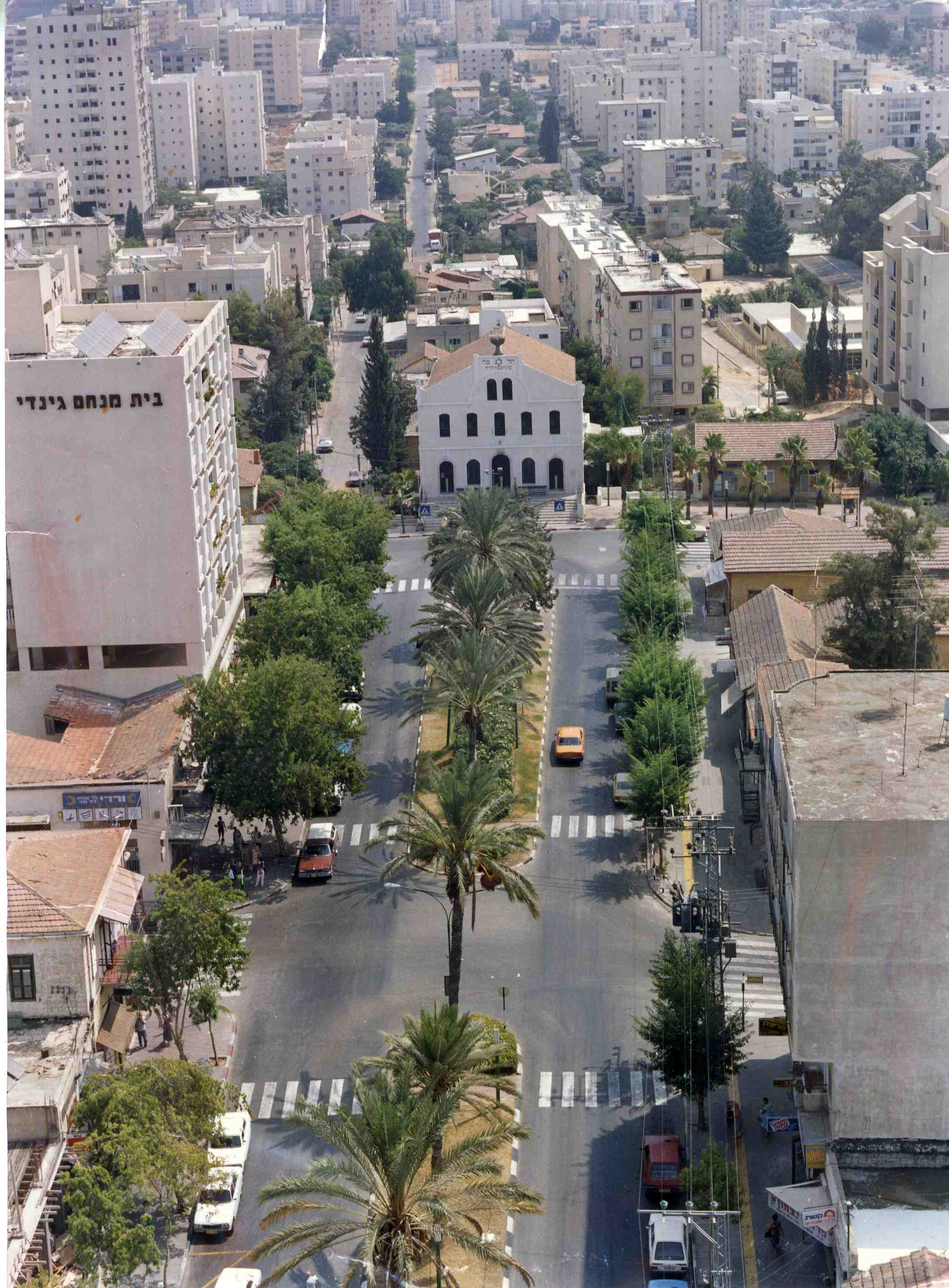 Rishon le'zion, Cities in Israel